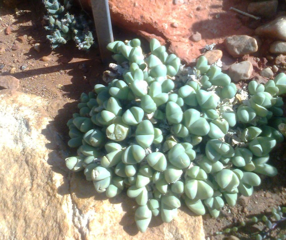 Gibbaeum petrense - Mimicry plant